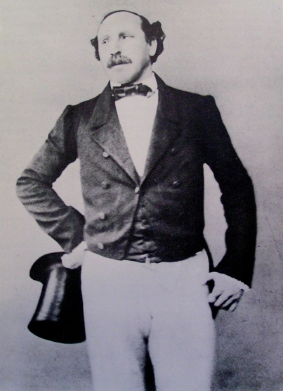 The german circus proprietor Ernst Renz (1815-1892)